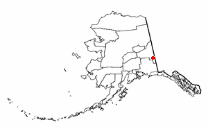 Adapted from Wikipedia's AK borough maps by Seth Ilys.